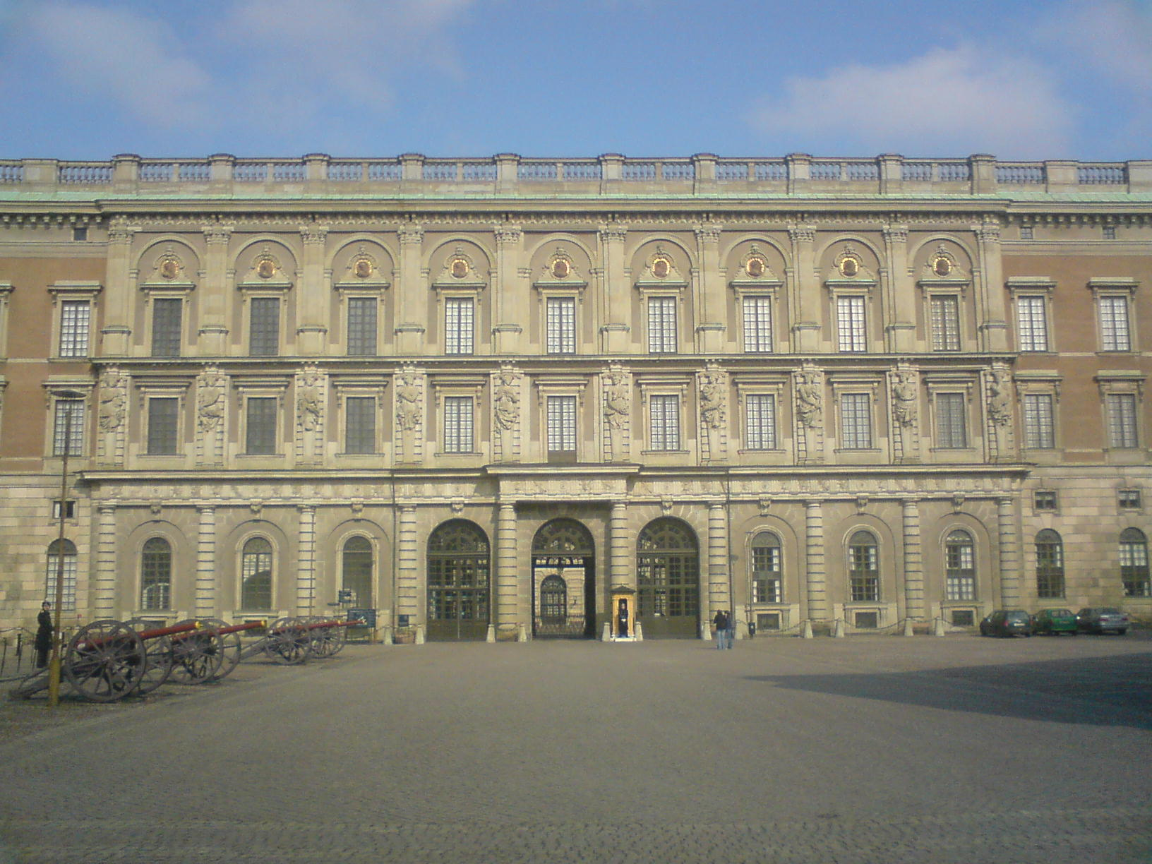 The west facade of the Royal Palace in Stockholm